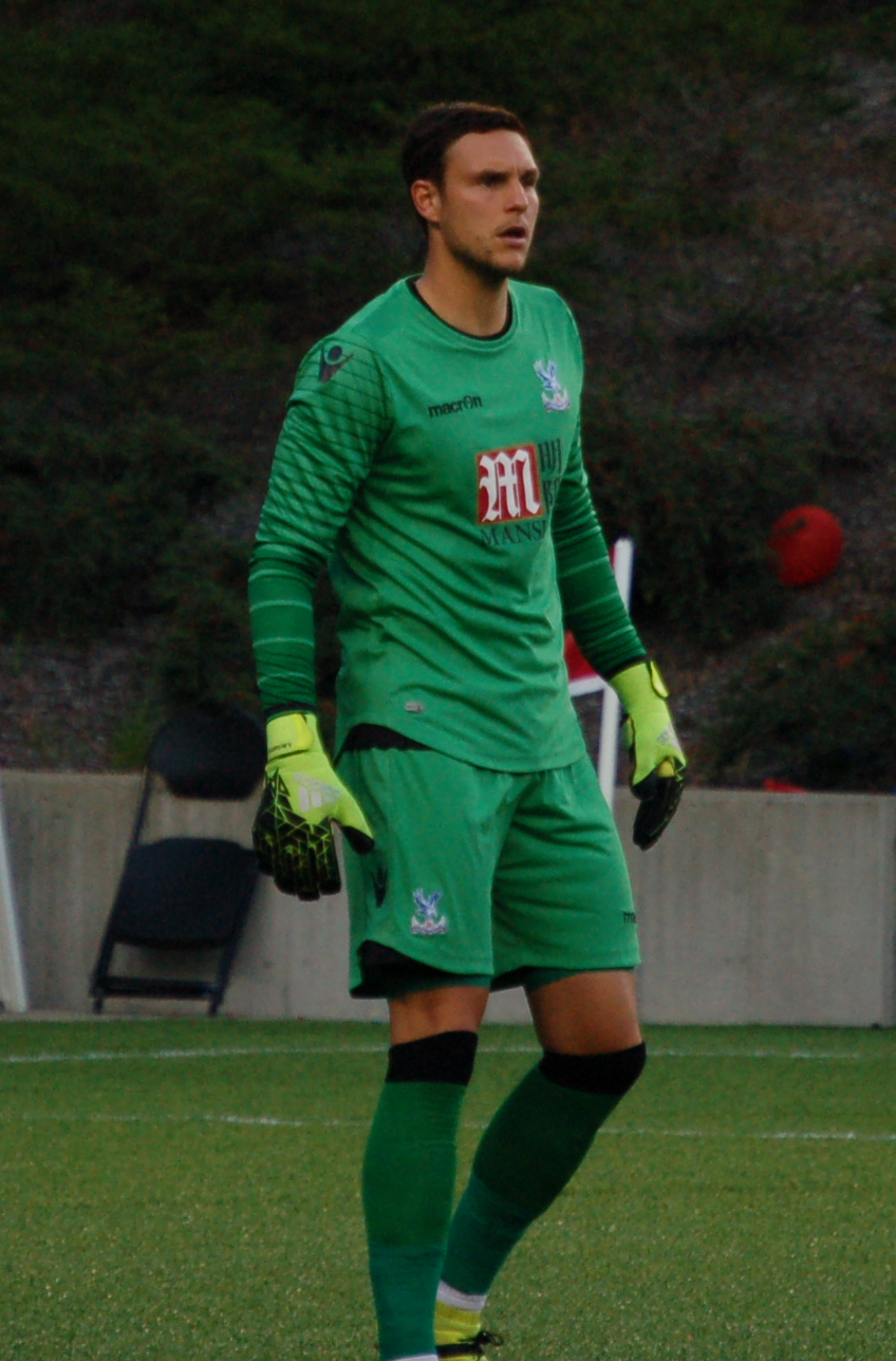 Alex McCarthy (PAL) Taken during an exhibition match between FC Cincinnati and Crystal Palace F.C. at Nippert Stadium in Cincinnati on July 16, 2016.